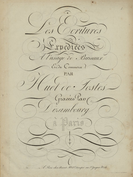 Title page of Huet de Tostes 'Les Ecritures expédiées' (1820)